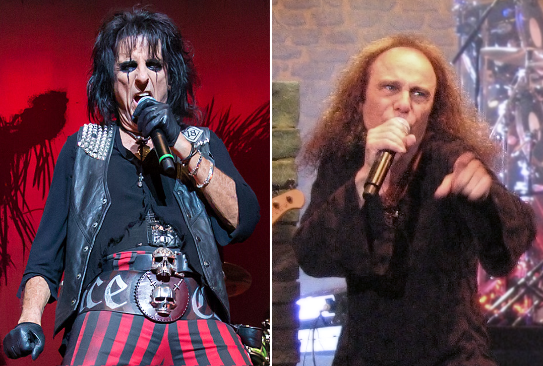 Alice Cooper (2006) & Ronnie James Dio (2007)